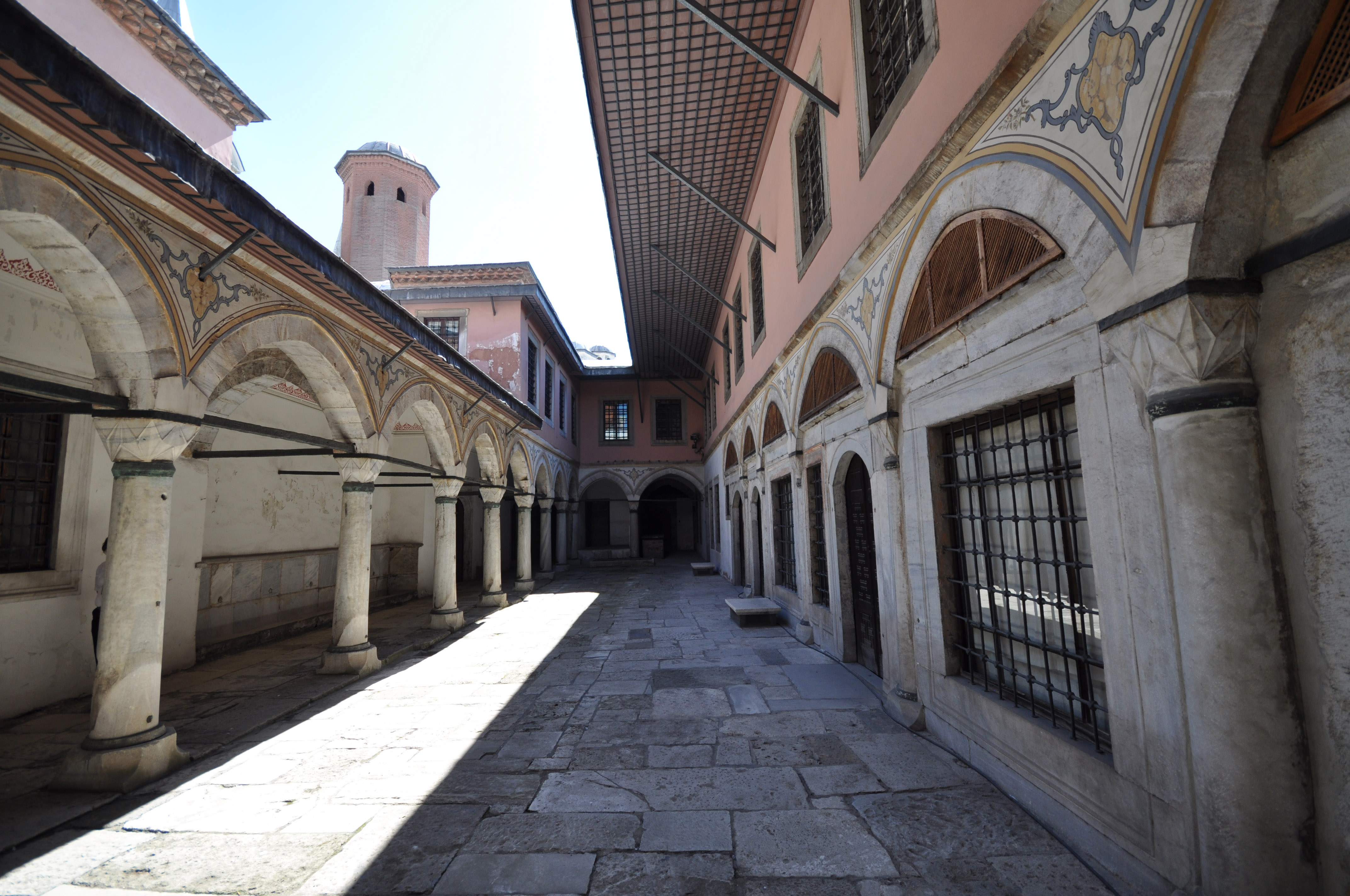 The Topkapı Palace is a large palace in Istanbul that was the primary residence of the Ottoman Sultans for approximately 400 years (1465-1856) of their 624-year reign. The Imperial Harem (Harem-i Hümayûn) occupied one of the sections of the private apartments of the sultan; it contained more than 400 rooms. The harem was home to the sultan's mother, the Valide Sultan; the concubines and wives of the sultan; and the rest of his family, including children; and their servants. The harem consists of a series of buildings and structures, connected through hallways and courtyards. Every service team and hierarchical group residing in the harem had its own living space clustered around a courtyard. The number of rooms is not determined, with probably over 100, of which only a few are open to the public. These apartments (Daires) were occupied respectively by the harem eunuchs, the Chief Harem Eunuch (Darüssaade Ağası), the concubines, the queen mother, the sultan's consorts, the princes and the favourites. There was no trespassing beyond the gates of the harem, except for the sultan, the queen mother, the sultan's consorts and favourites, the princes and the concubines as well as the eunuchs guarding the harem. The harem wing was only added at the end of the 16th century. Many of the rooms and features in the Harem were designed by Mimar Sinan. The harem section opens into the Second Courtyard (Divan Meydanı), which the Gate of Carriages (Arabalar Kapısı) also opens to. The structures expanded over time towards the Golden Horn side and evolved into a huge complex. The buildings added to this complex from its initial date of construction in the 15th century until the early 19th century capture the stylistic development of palace design and decoration. Parts of the harem were redecorated under the sultans Mahmud I and Osman III in an Italian-inspired Ottoman Baroque style. These decorations contrast with those of the Ottoman classical age